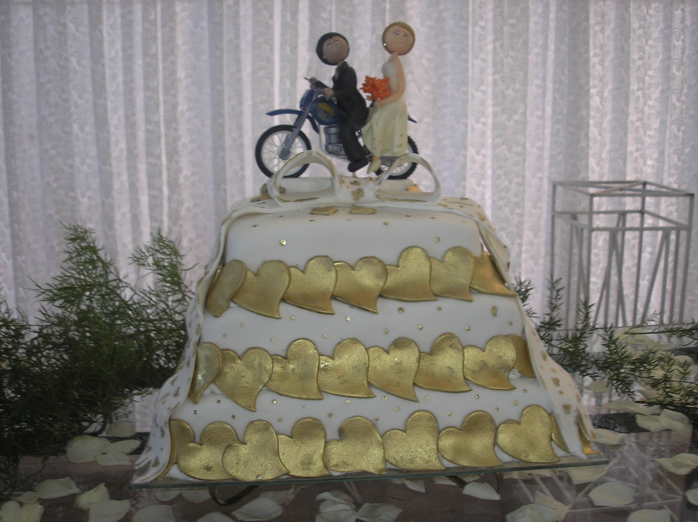 Cake